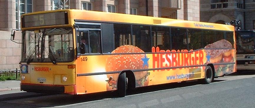 Connex Volvo B10BLE / Carrus City L bus in Helsinki advertising for Hesburger fast food chain. Surely late as well. Taken by Vkem.